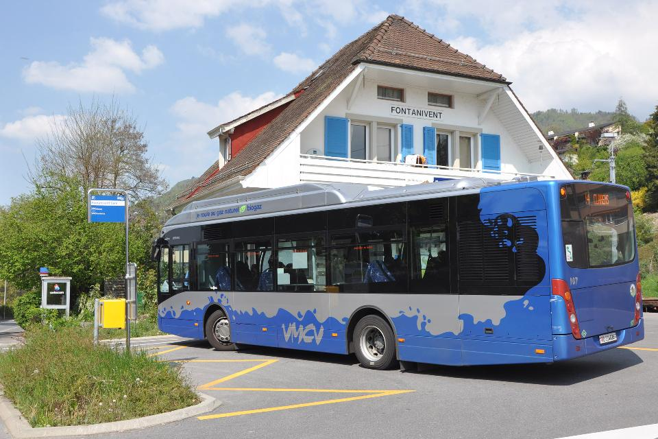 Bus 107 of the VMCV (Vevey–Montreux–Chillon–Villeneuve), a Van Hool A330, at Fontanivent station on the Montreux – Les Avants route.